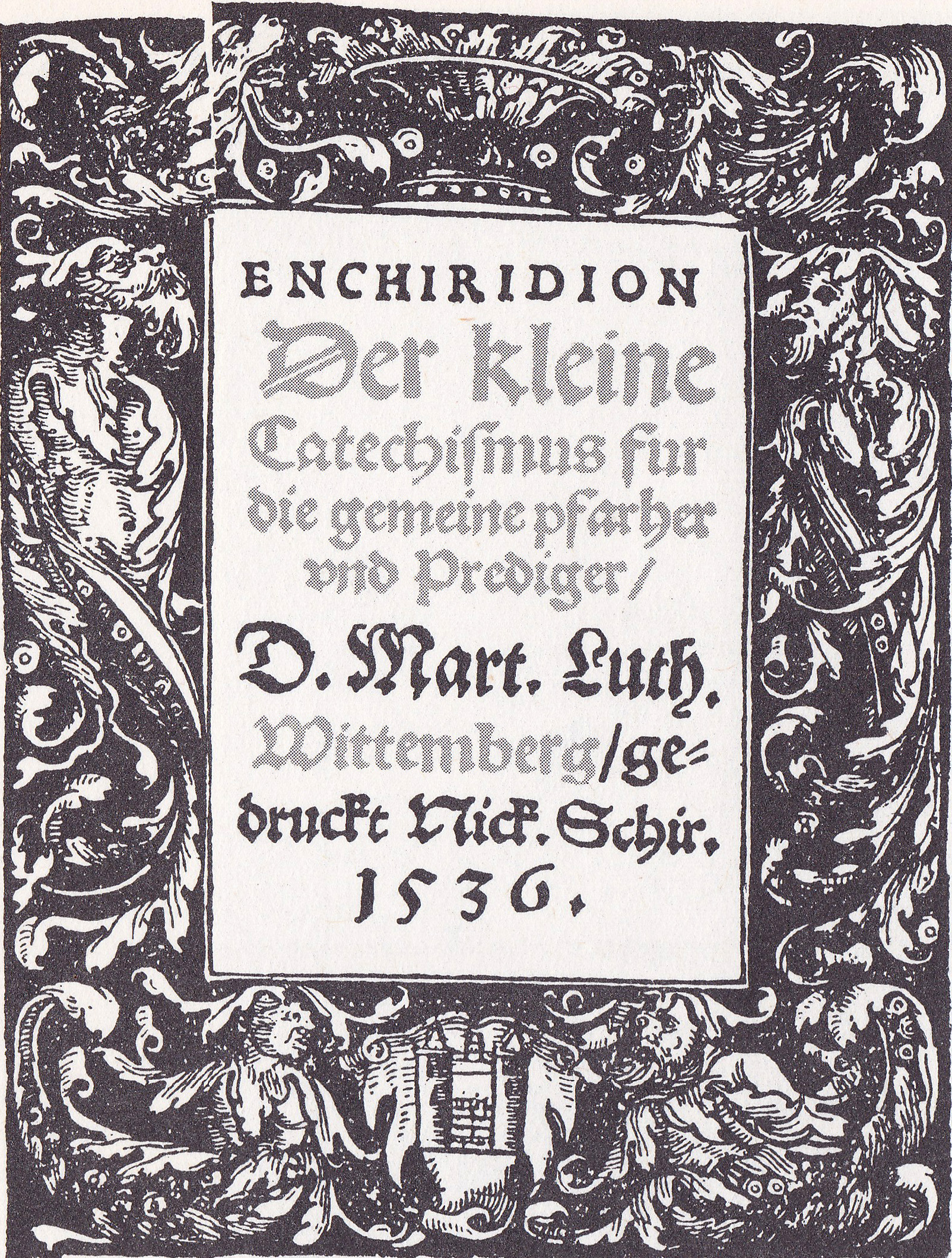 Title page to Luther's "Der kleine Catechismus" (The Small Cathechism) 1536.